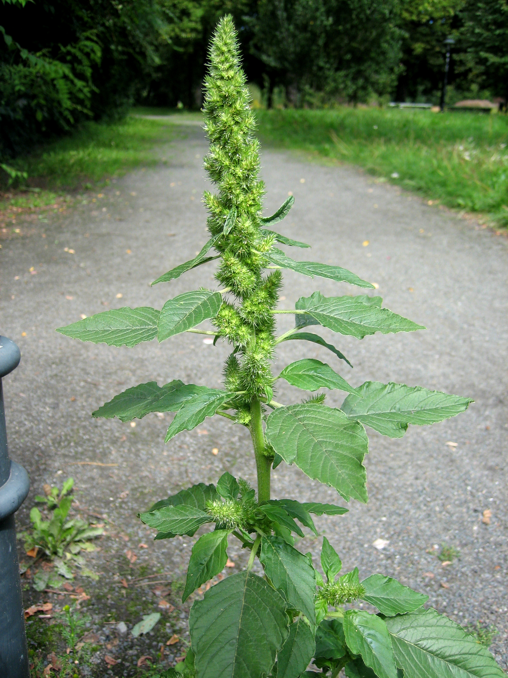 Amaranthus retroflexus